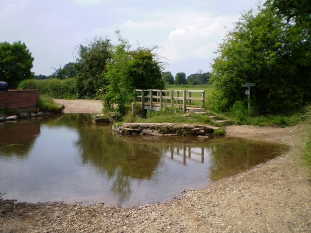 Ford and footbridge near Redbournbury Farm Continue east past Redbournbury Mill to find this ford taking the track through the River Ver